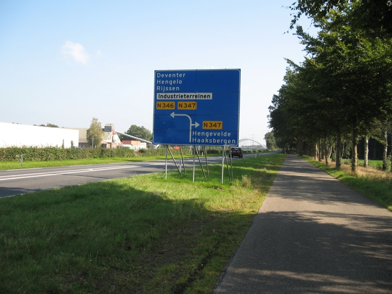 Dutch Provincial road 346 near Goor.